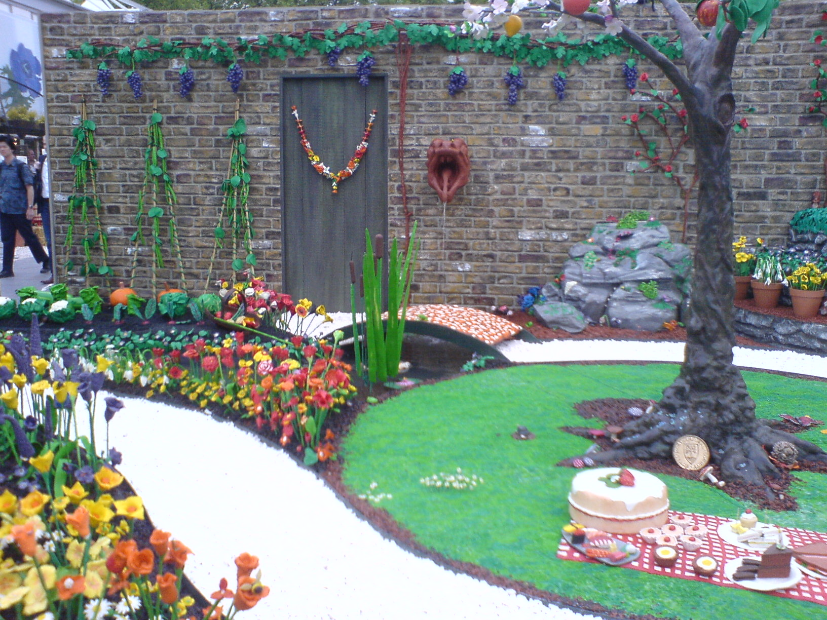 James May's plasticine garden, RHS Chelsea Flower Show 2009.